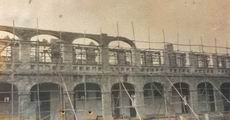 Le Hong Phong High School during Construction